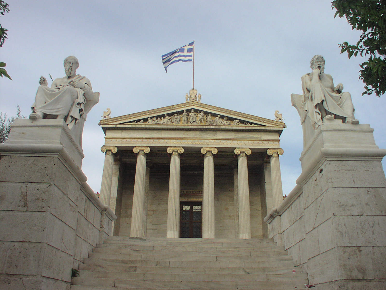 Academy of Athens